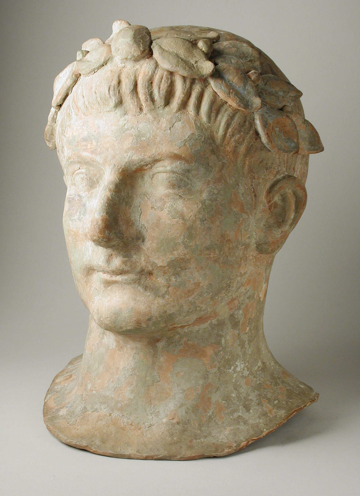 Italy, Etruscan, 2nd century B.C. Sculpture Terracotta Height: 11 1/2 in. (29.21 cm) Gift of Robert Blaugrund (M.82.77.13) Greek, Roman and Etruscan Art